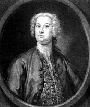 18th-century painting of singer of that time, faithful 2D reproduction of